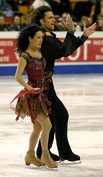 Marie-France Dubreuil and Patrice Lauzon compete their free dance at the 2004 Four Continents Championships in Hamilton, Ontario, Canada. author: User:Vesperholly